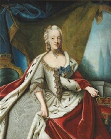 Portrait of princess Charlotte Amalie (1706-1782) Auction: November 29, 2016